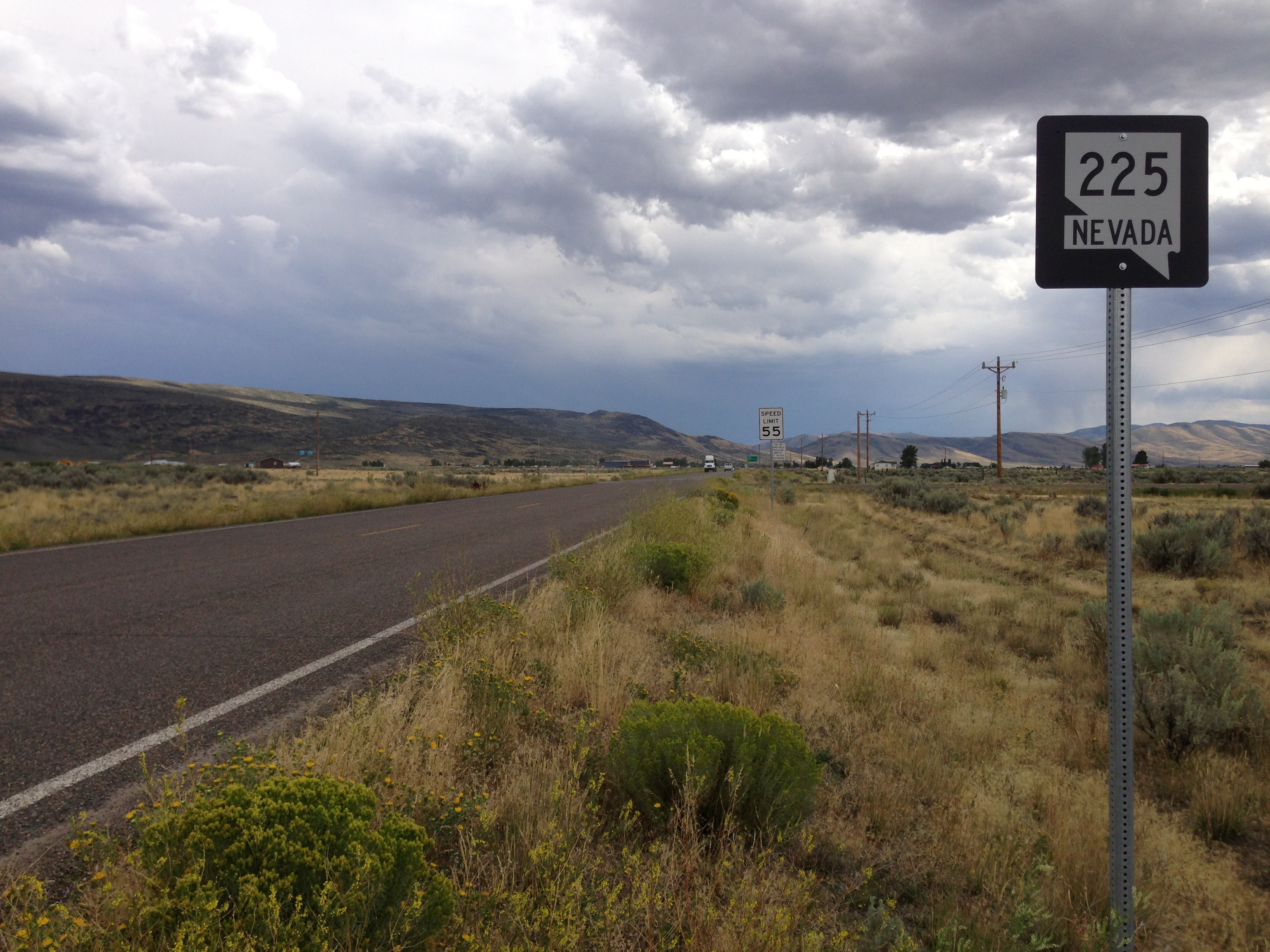 First reassurance sign along southbound Nevada State Route 225 (Mountain City Highway) in Owyhee, Nevada